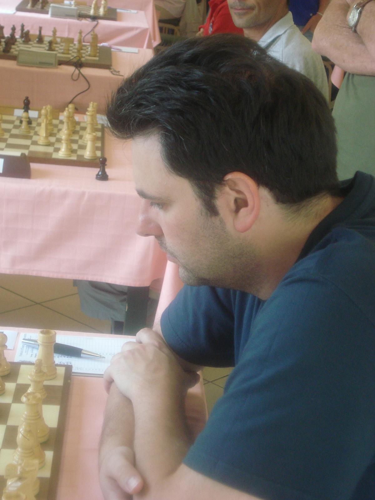 GM Oscar de la Riva Aguado, XXVI Open Internacional d'Andorra.